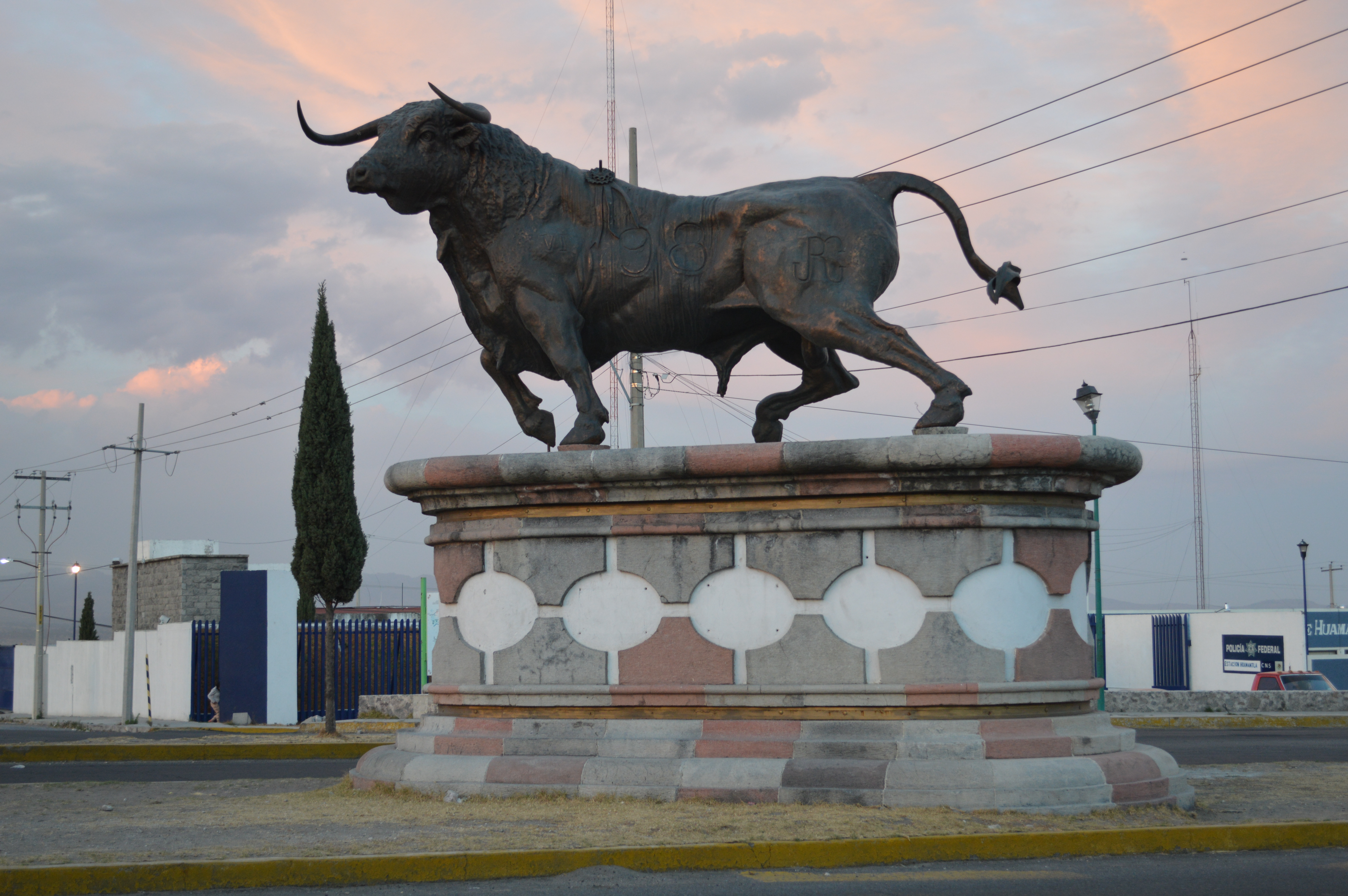 Monumento al Toro Bravo by Diodoro Rodriguez Anaya at the entrance to Huamantla, Tlaxcala, Mexico